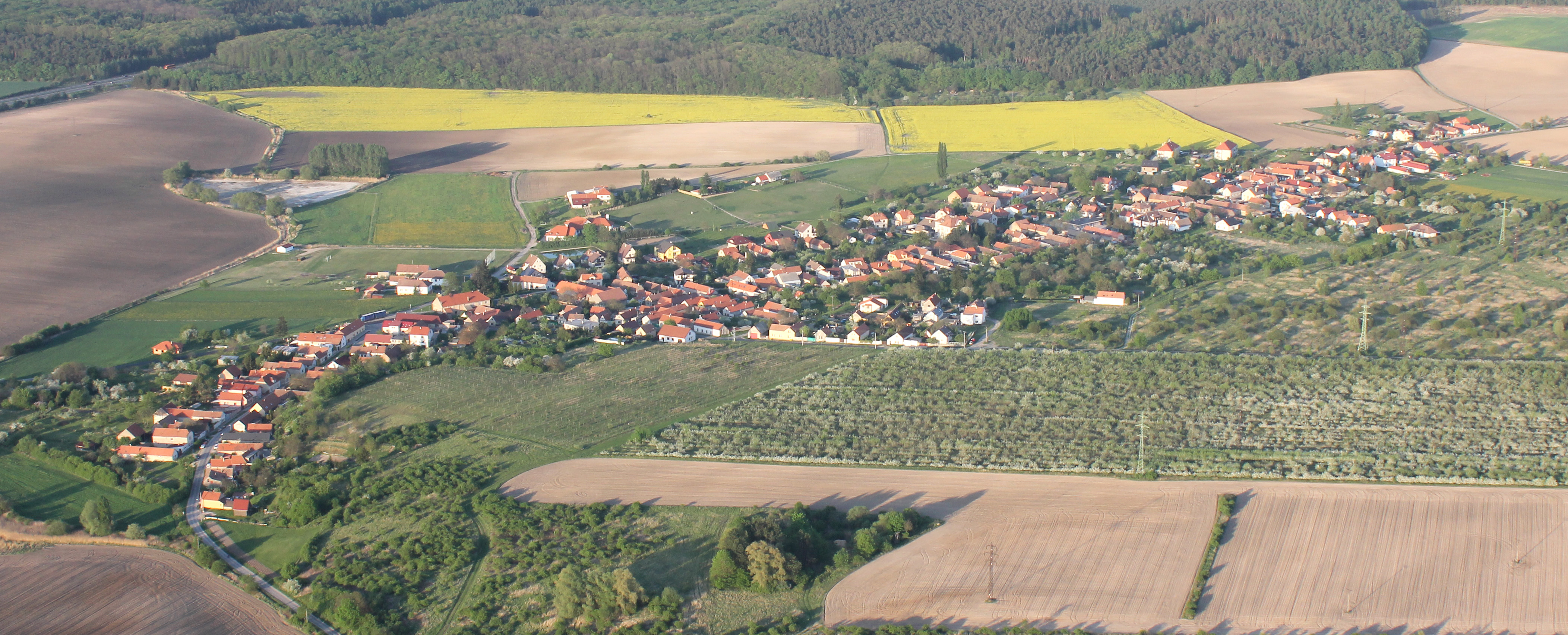 aerial photo